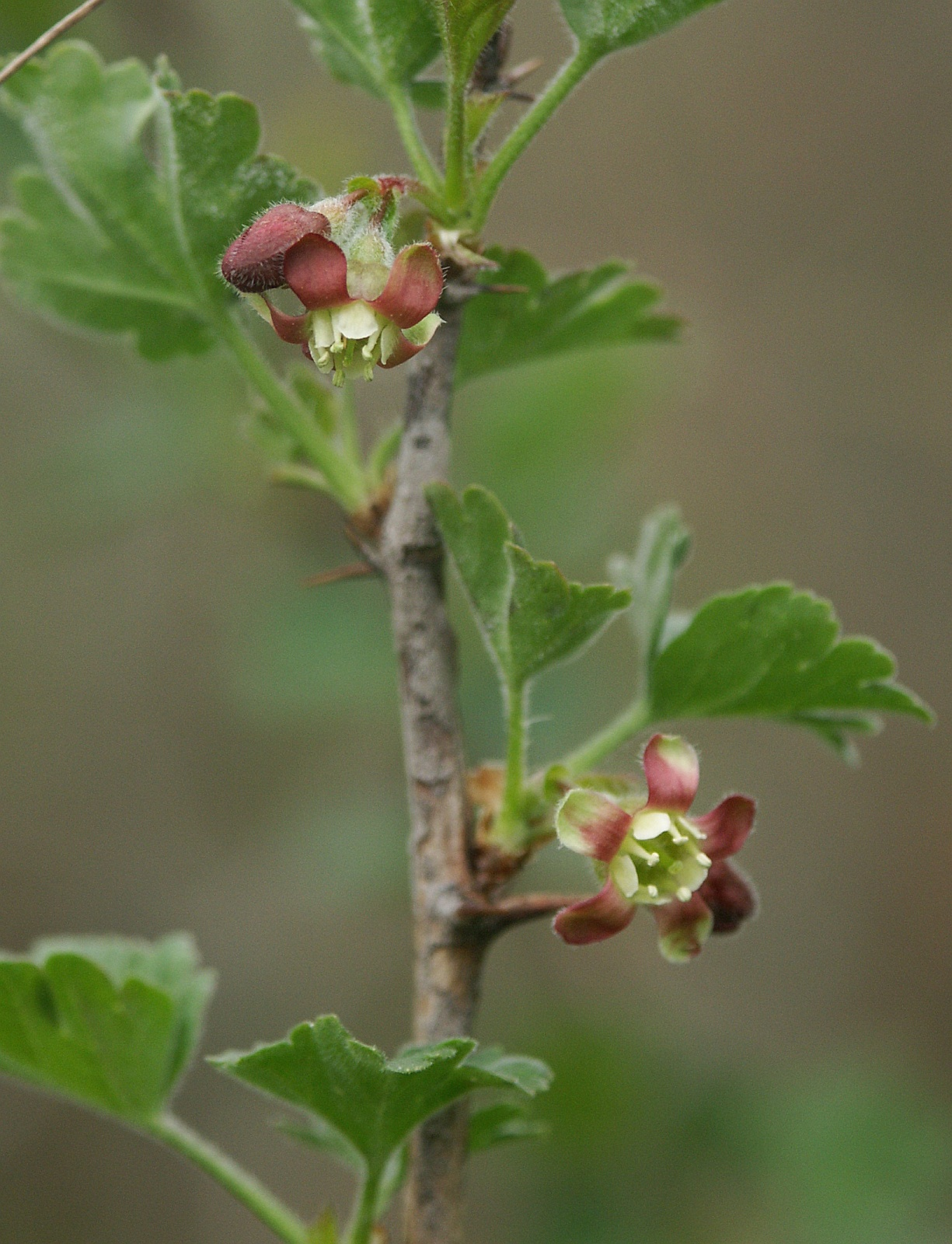 Ribes uva-crispa, Hohenloher Land, Germany